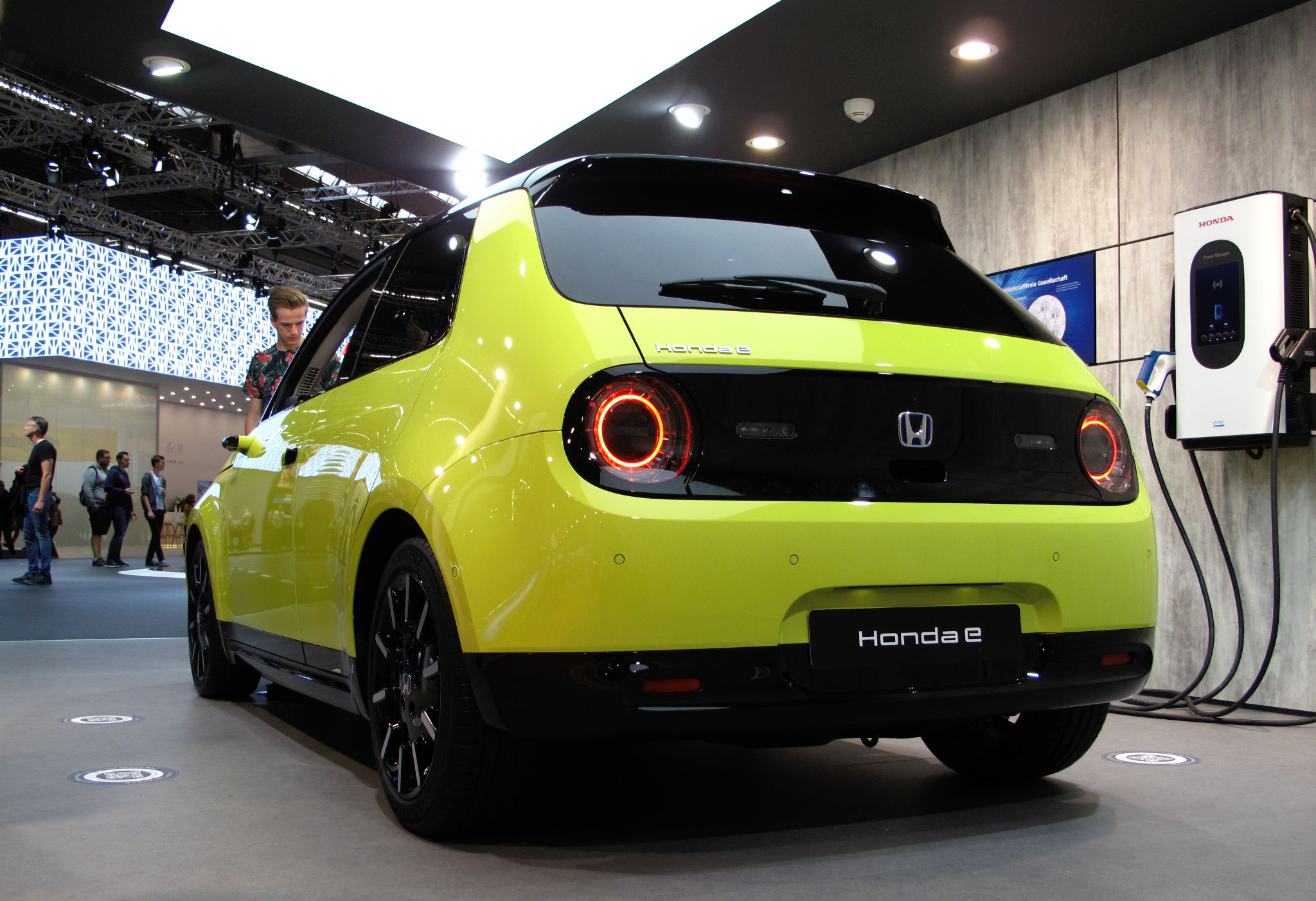 IAA Frankfurt 2019 The Japanese car manufacturers didn't have much interest in the Frankfurt Motor Show anymore, with only Honda attending. Obviously Honda didn't enter Frankfurt without a notable world premiere, and decided to finally launch the production version of the electric Honda e. The rear-wheel drive Honda e will compete with the Mini Cooper SE (Electric), Opel Corsa-e, Peugeot e-208 and Renault Zoe. It scores well with its refreshing, minimalist look with cameras (Side Camera Mirror System) instead of side view mirrors and dual 12.3 inch LCD touchscreens in the interior. The Honda e is equipped with an electric motor available with two power outputs of 100 kW/136 PS or 113 kW/154 PS, and 315 Nm of torque. The 35.5kWh battery delivers a mediocre range of up to 220 km from a single charge, which is as Honda formulates it, "perfect for every day urban commuting".